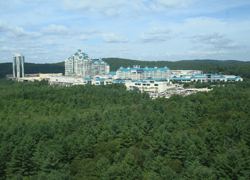 Foxwoods Resort Casino in Ledyard, Connecticut; picture taken from the observation tower of the Mashantucket Pequot Museum